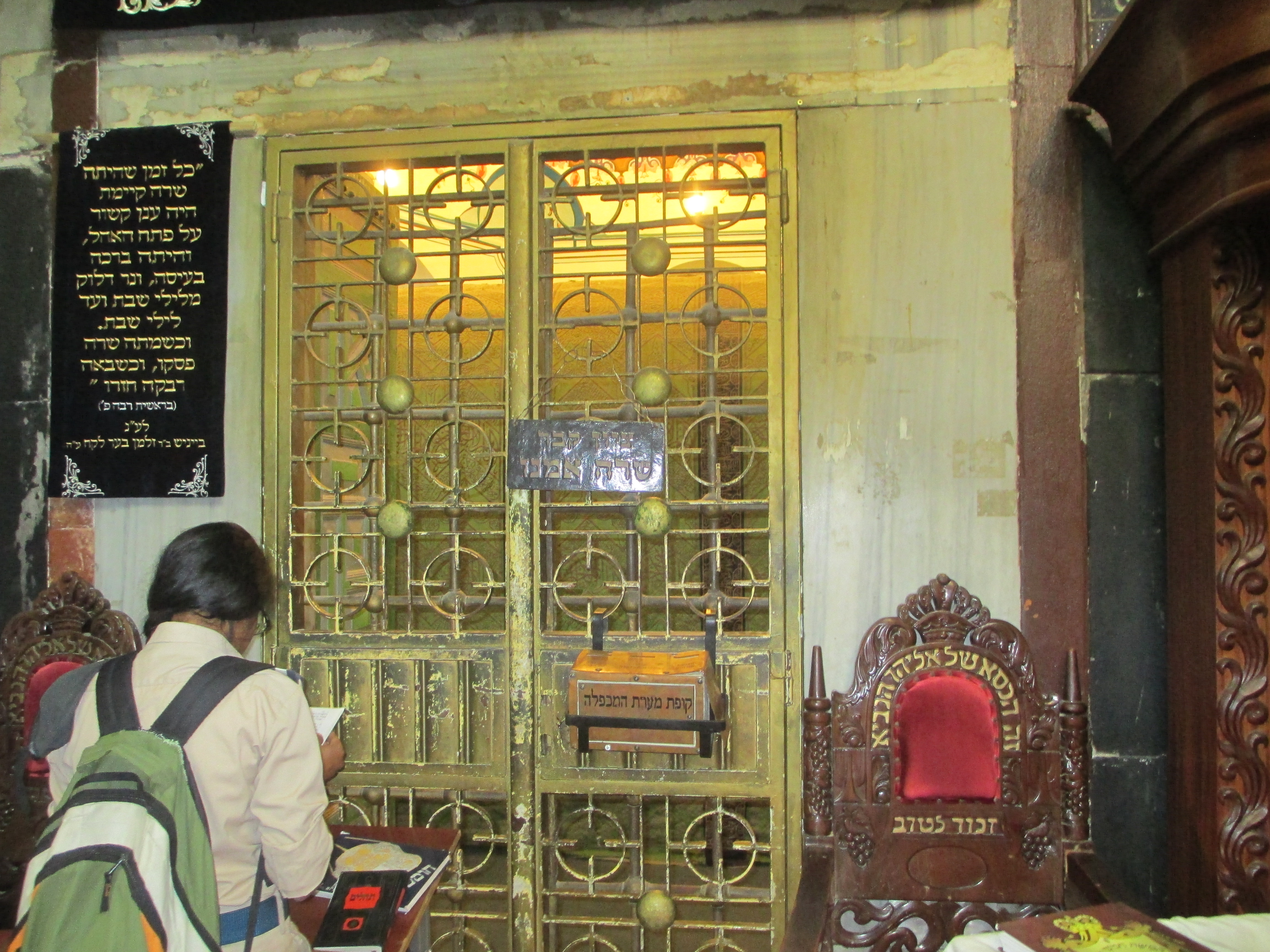 Cave of the Patriarchs - cenotaph of Sarah